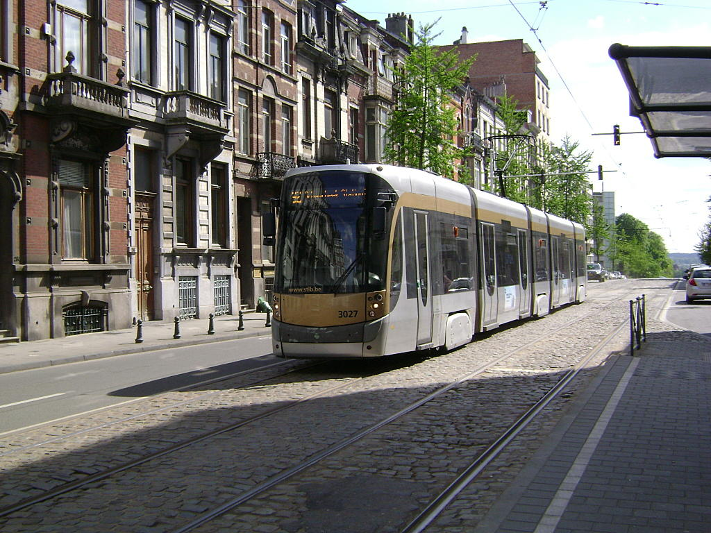 T3000 in the route 92 at Brussels.